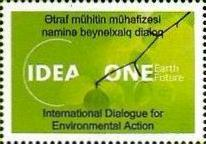 International Dialogue for Environmental Action